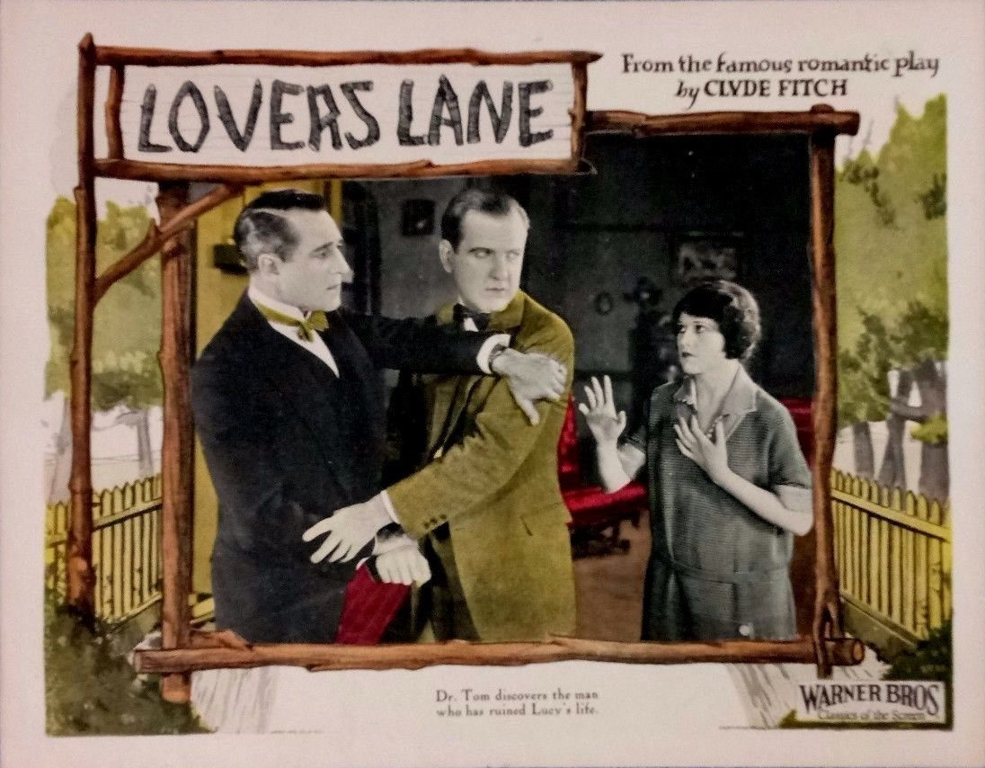 This is a lobby card for the 1924 American silent romantic comedy film Lovers' Lane.